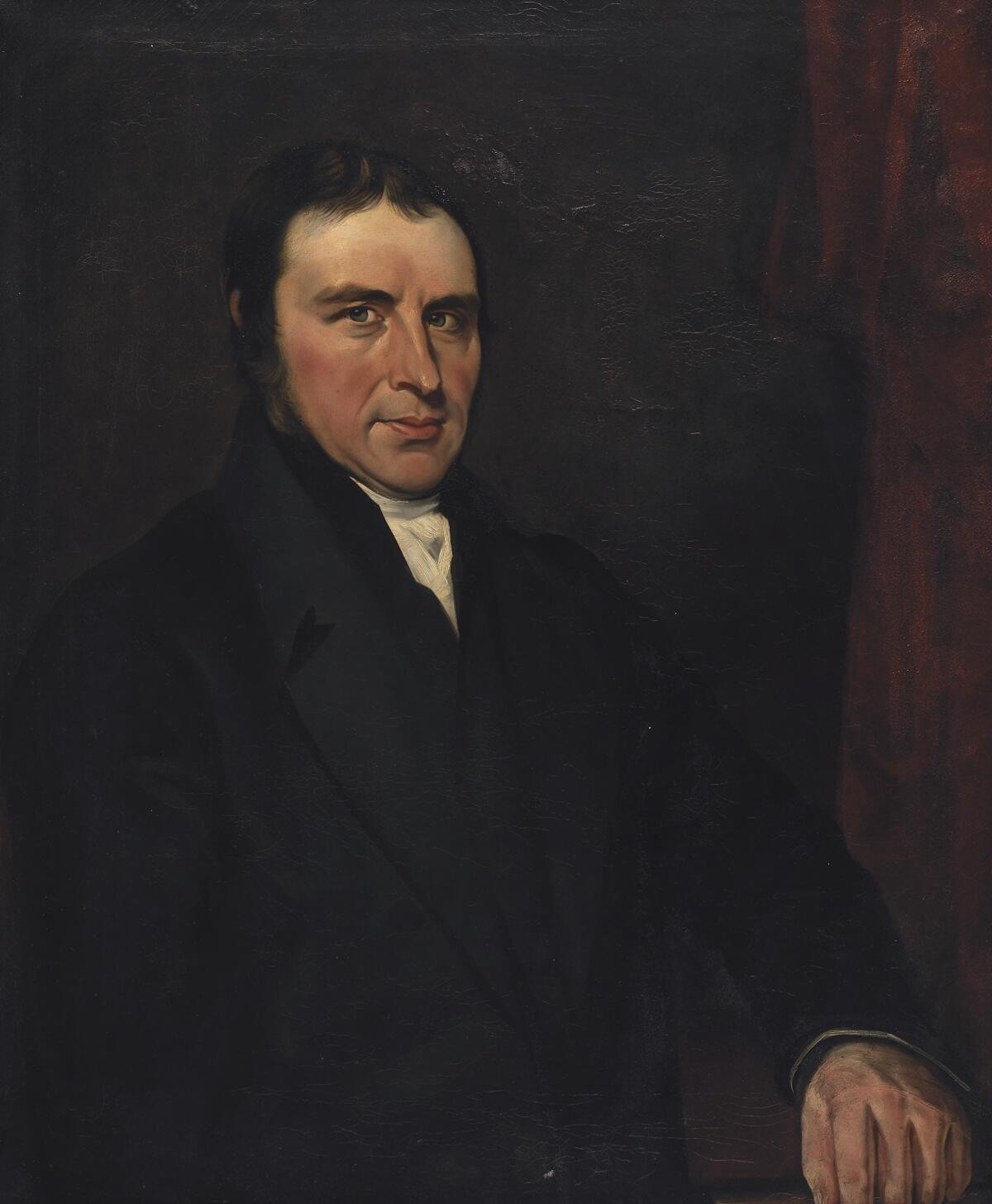 A painting from the Framed Works of Art collection at the National Library of wales.